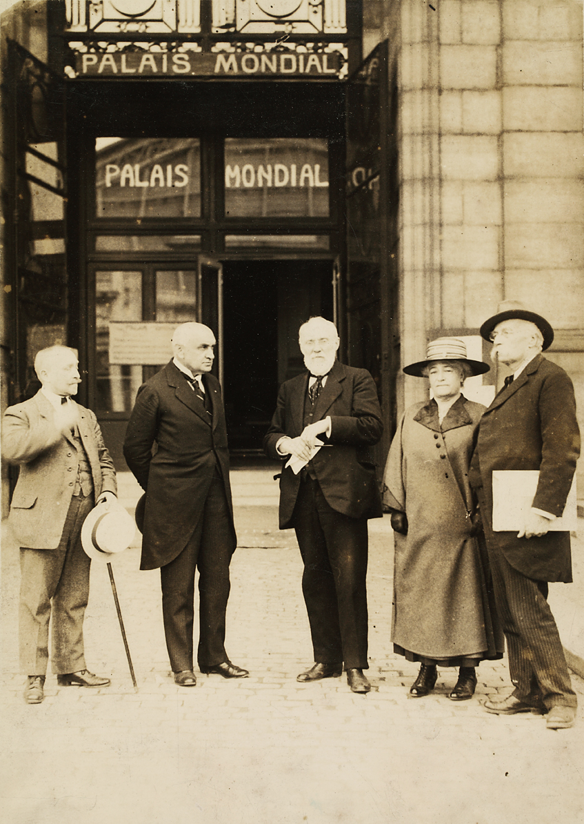 Paul Otlet, Henri La Fontaine and Mathilde Lhoest, his wife, outside the gates of Palais Mondial, in Cinquantenaire (Brussel)